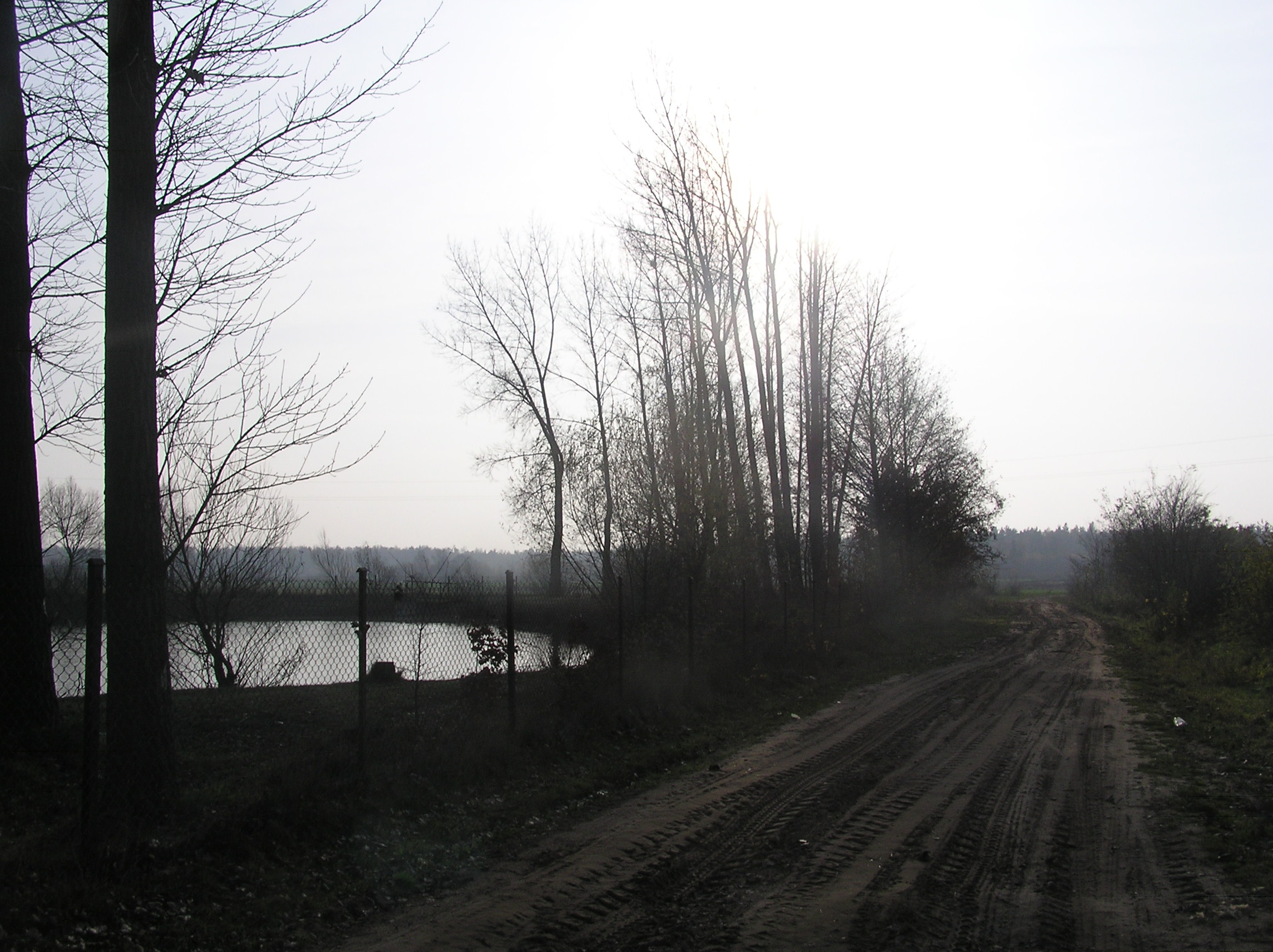 Złoczew (Poland, Łódź Voivodeship, Sieradz County), Starowiejska Street